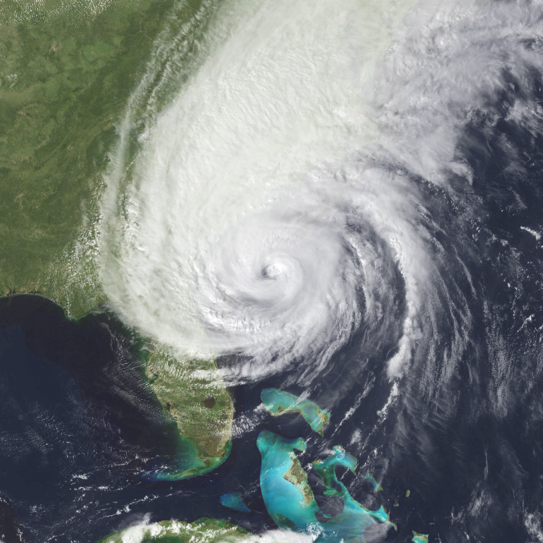 Hurricane Floyd approaching North Carolina as a Category 3 hurricane on September 15, 1999